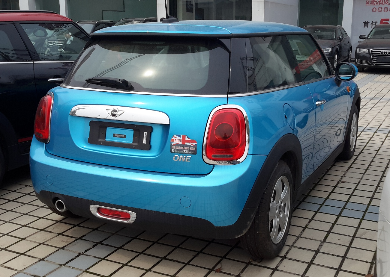 Mini Hatch F56 photographed in Wuhan, Hubei province, China.